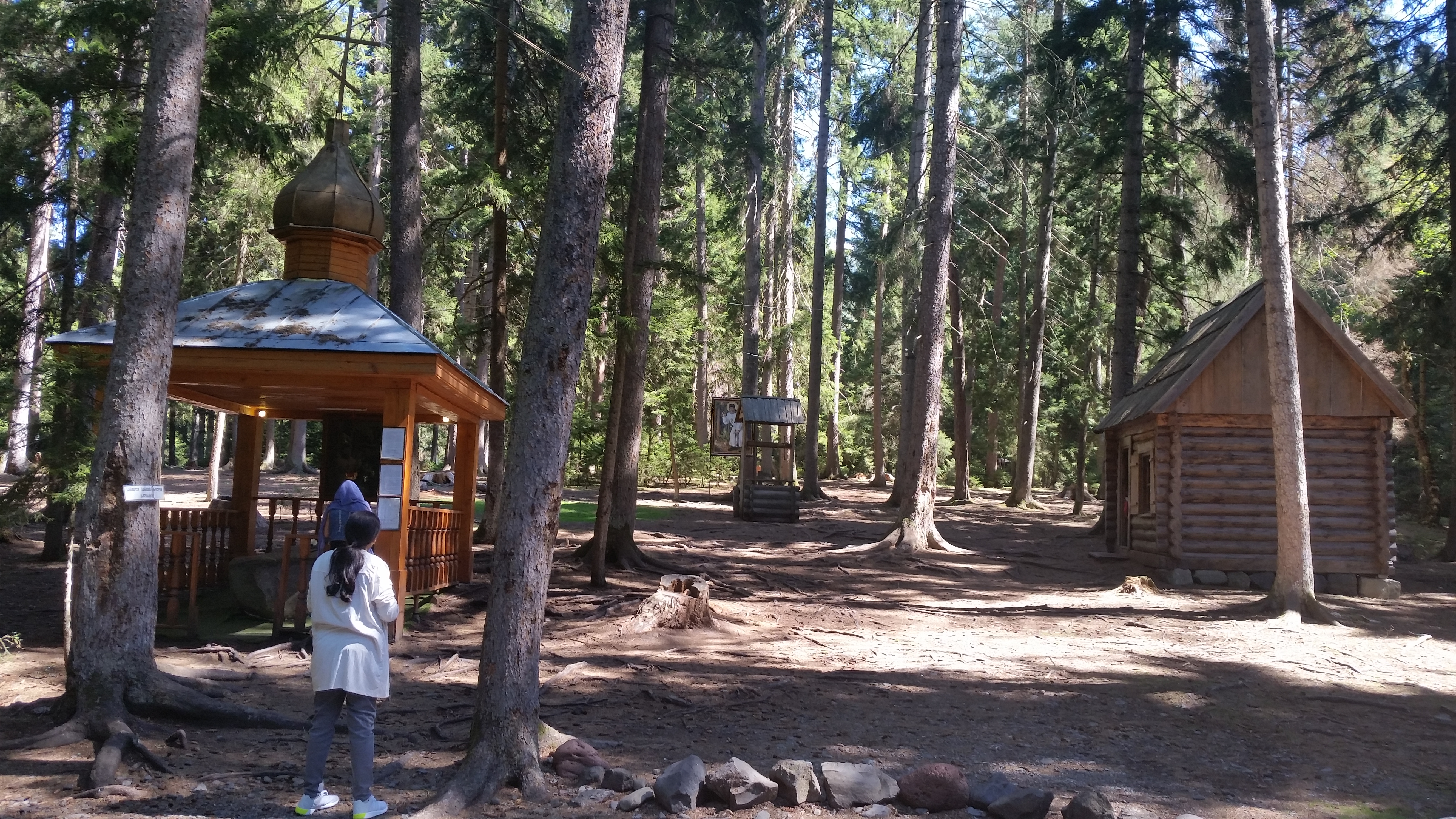 Pilgrim spot